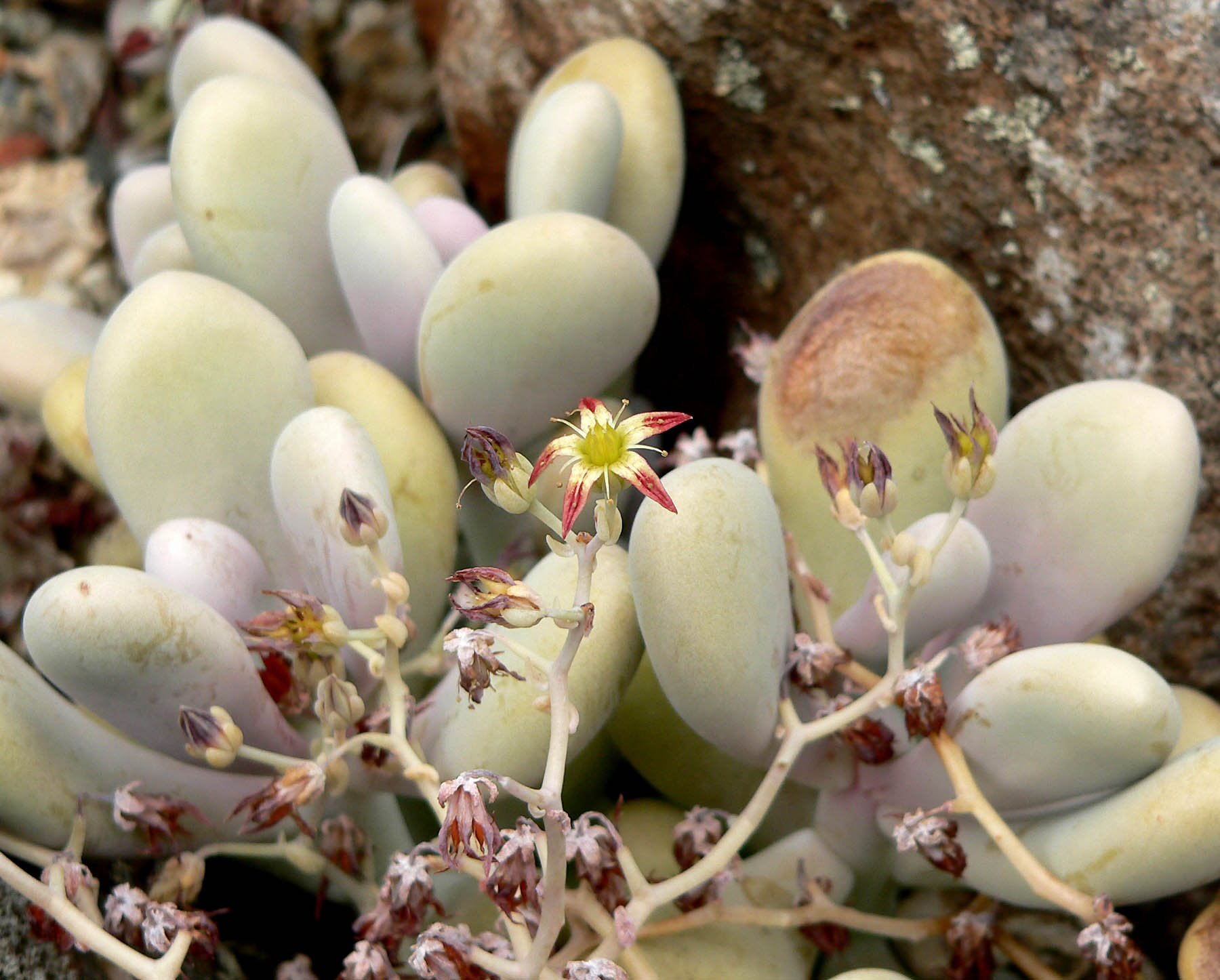 Photo of Graptopetalum amethystinum at the University of California Botanical Garden